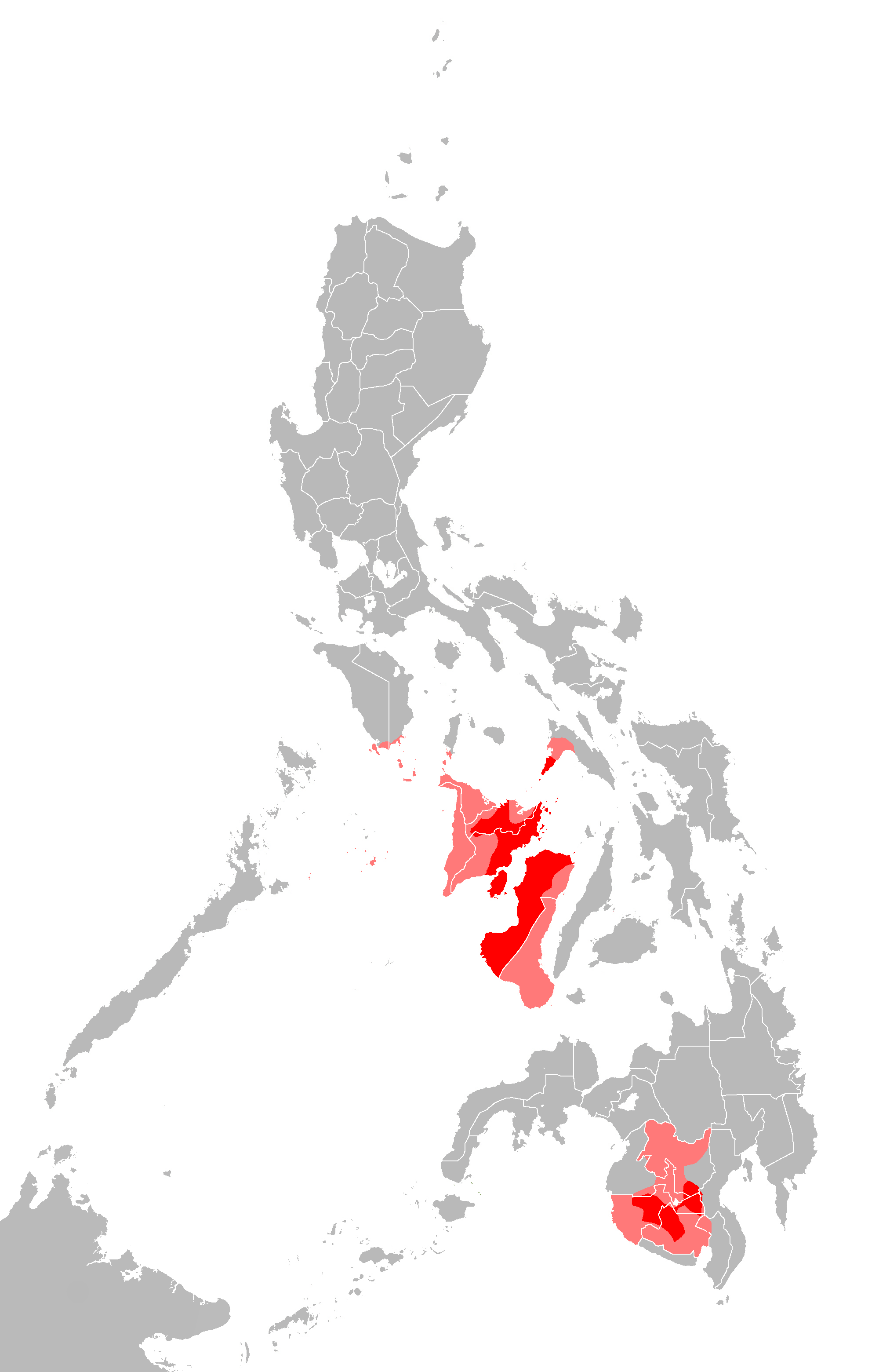 Hiligaynon language map based on Ethnologue maps